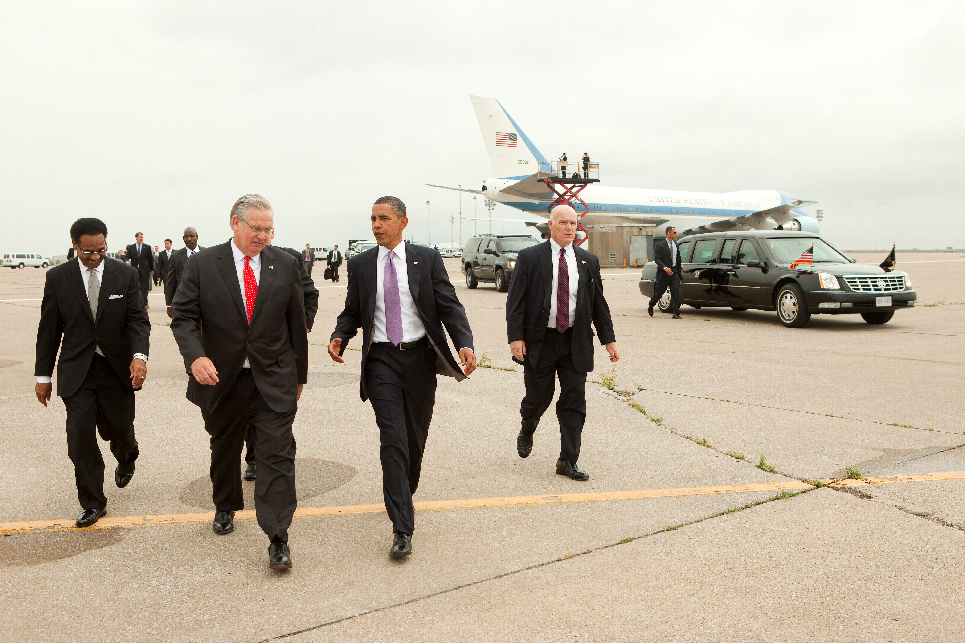 President Barack Obama walks with Missouri Gov. Jay Nixon from Air Force One to the nearby Smith Electric Vehicles at the Kansas City International Airport in Kansas City, Mo., July 8, 2010. (Official White House Photo by Pete Souza)